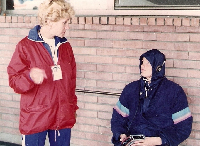 Coach Cristina Sopterian and Anca Pătrășcoiu at the 1985 European Championships in Sofia